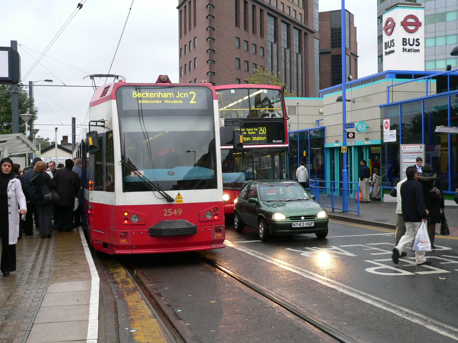 Tramlink tram 2549 at West Croydon station, opposite the Bus Station. 2005-10-24